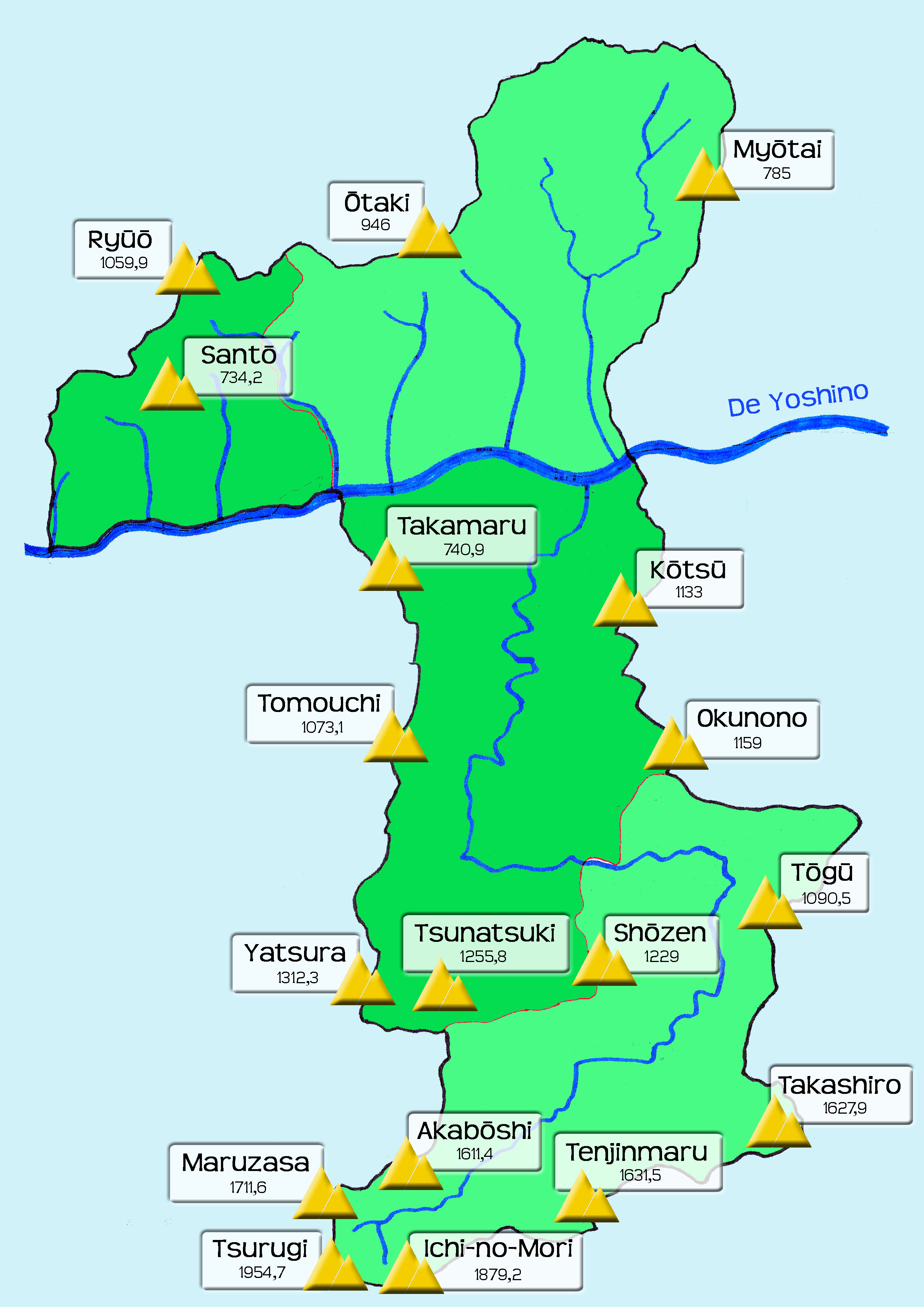 Mountains in Mima-shi, Tokushima-ken